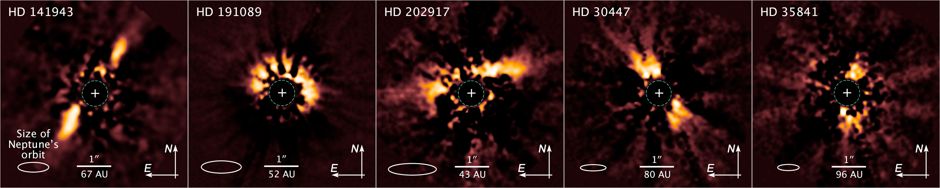 These images reveal five planetary debris disks uncovered in images around young stars that astronomers retrieved from the Barbara A. Mikulski Archive for Space Telescopes (MAST). Hubble's Near Infrared Camera and Multi-Object Spectrometer observed the disks in near-infrared light between 1999 and 2007. Astronomers used a coronagraph to block out the bright light from each star so they could analyze the faint, reflected light off dust particles in the disks. Recently applied new image processing techniques allowed astronomers to subtract excess starlight that escaped beyond the coronagraph to clearly reveal the debris disks. The disks around HD 30447, HD 35841, and HD 141943 appear edge-on; the other two appear inclined. The Sun-like star HD 141943 is about the same age as our Sun when terrestrial planets like Earth were forming from material in its debris disk.Copyright Hubblesite